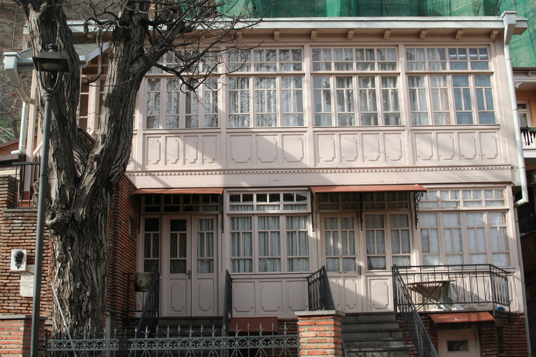 House in Tbilisi where Azerbaijani actor Ibrahim Isfahanli lived